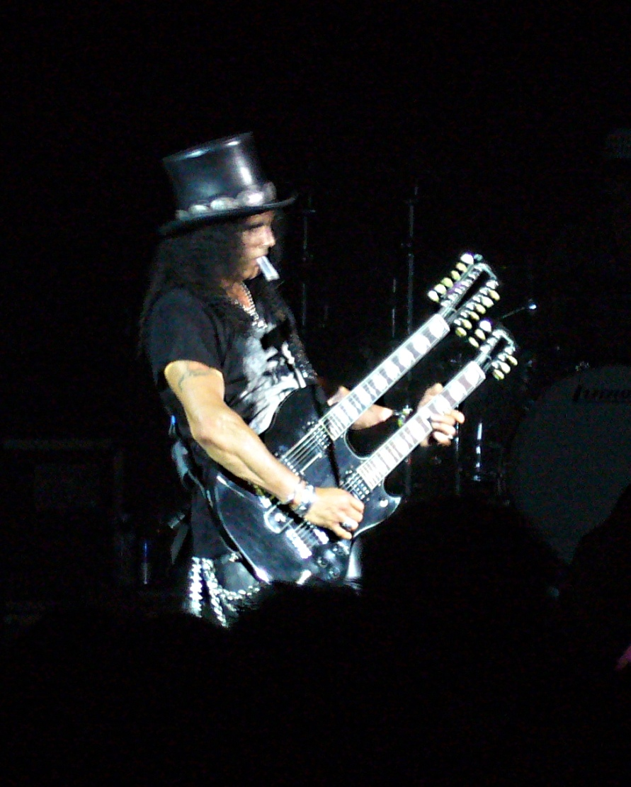 Slash with Gibson doubleneck (black Gibson EDS-1275) - Cropped version + sharpen